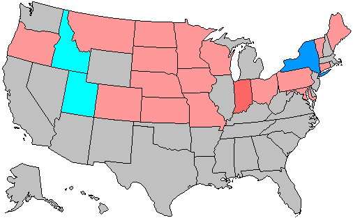 Summary of party change of U.S. house seats in the 1960 House election. Stripes indicate a tie between the gains of two or more parties. Legend: 6+ Democratic seat pickup 3-5 Democratic seat pickup 1-2 Democratic seat pickup 1-2 Republican seat pickup 3-5 Republican seat pickup 6+ Republican seat pickup Note: years ending in 2 may have inconsistent results due to redistricting.